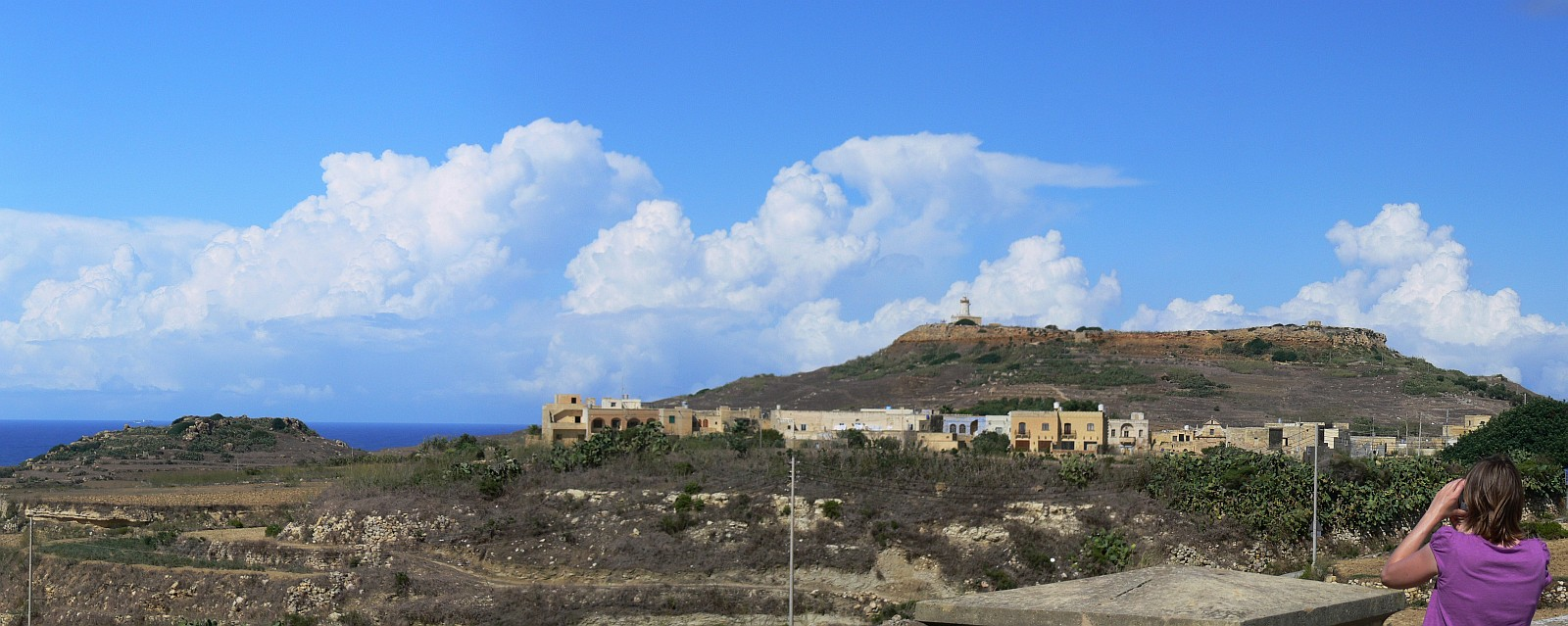 Ta' Ġurdan hill seen from Ta' Pinu. In front houses of Ta' Għammar hamlet of the village Għasri.